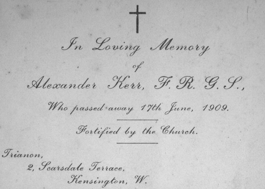 Memorial card for Alexander Kerr d 17 June 1909